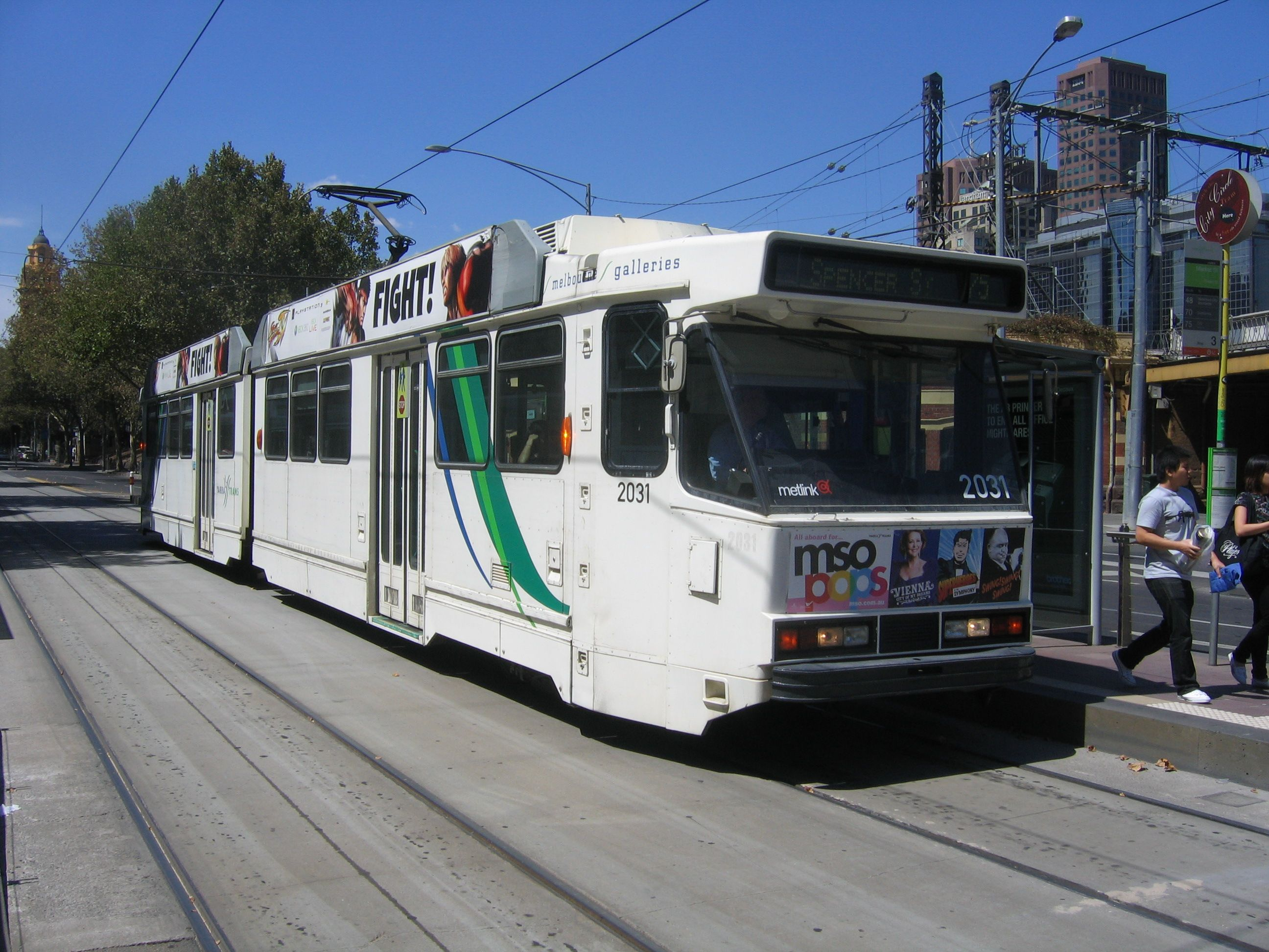 Melbourne Tram